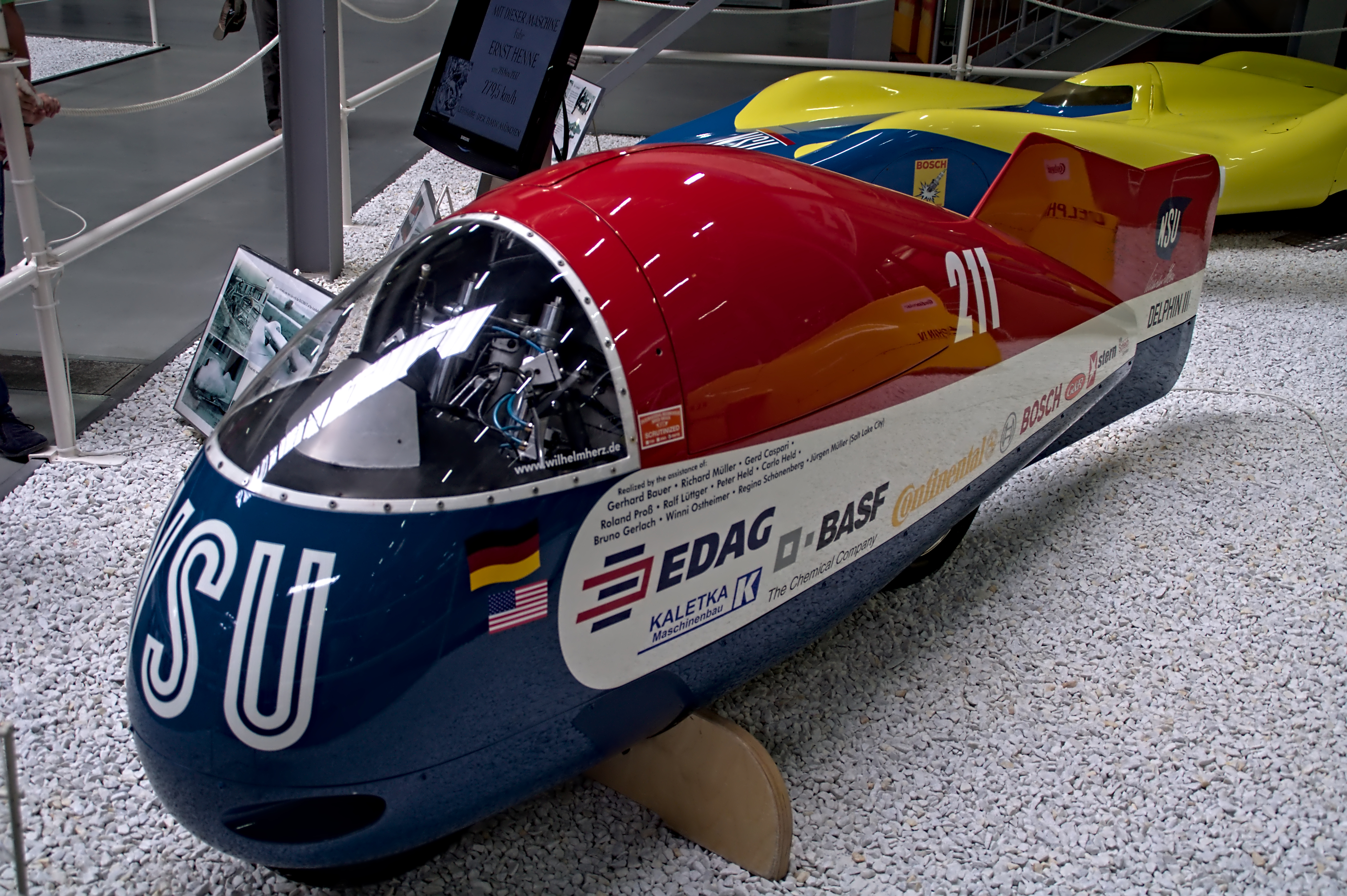 Replica NSU Delphin III streamliner at Technikmuseum Speyer, Germany